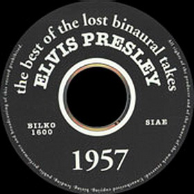 CD of Elvis Presley’s bootleg – The Best of the Lost Binaural Takes (1995)